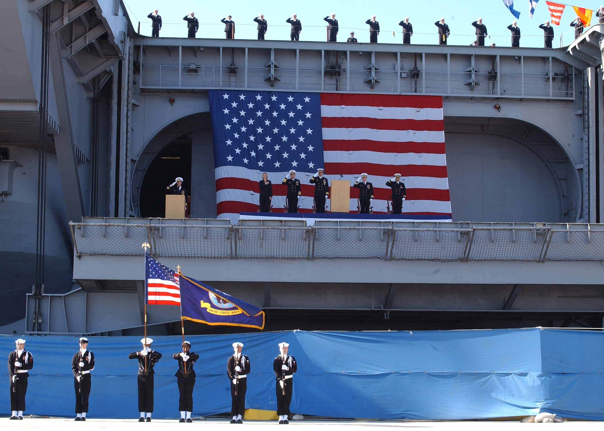 The official party salutes the colors at the historical decommissioning ceremony of the aircraft carrier USS John F. Kennedy in Mayport, Fla., March 23, 2007.